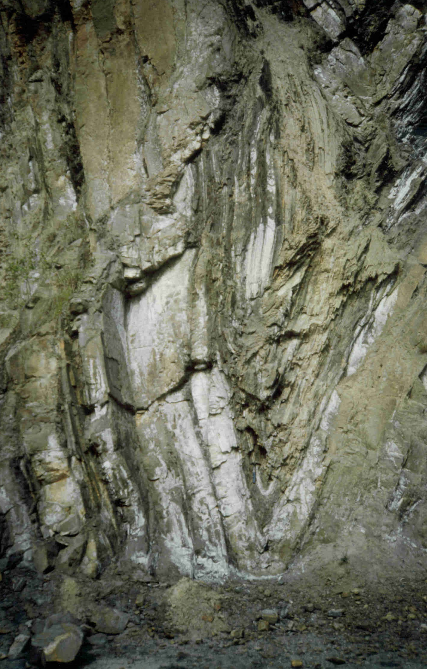 Chevron fold in Upper Carboniferous shales, Hagen-Vorhalle, Germany